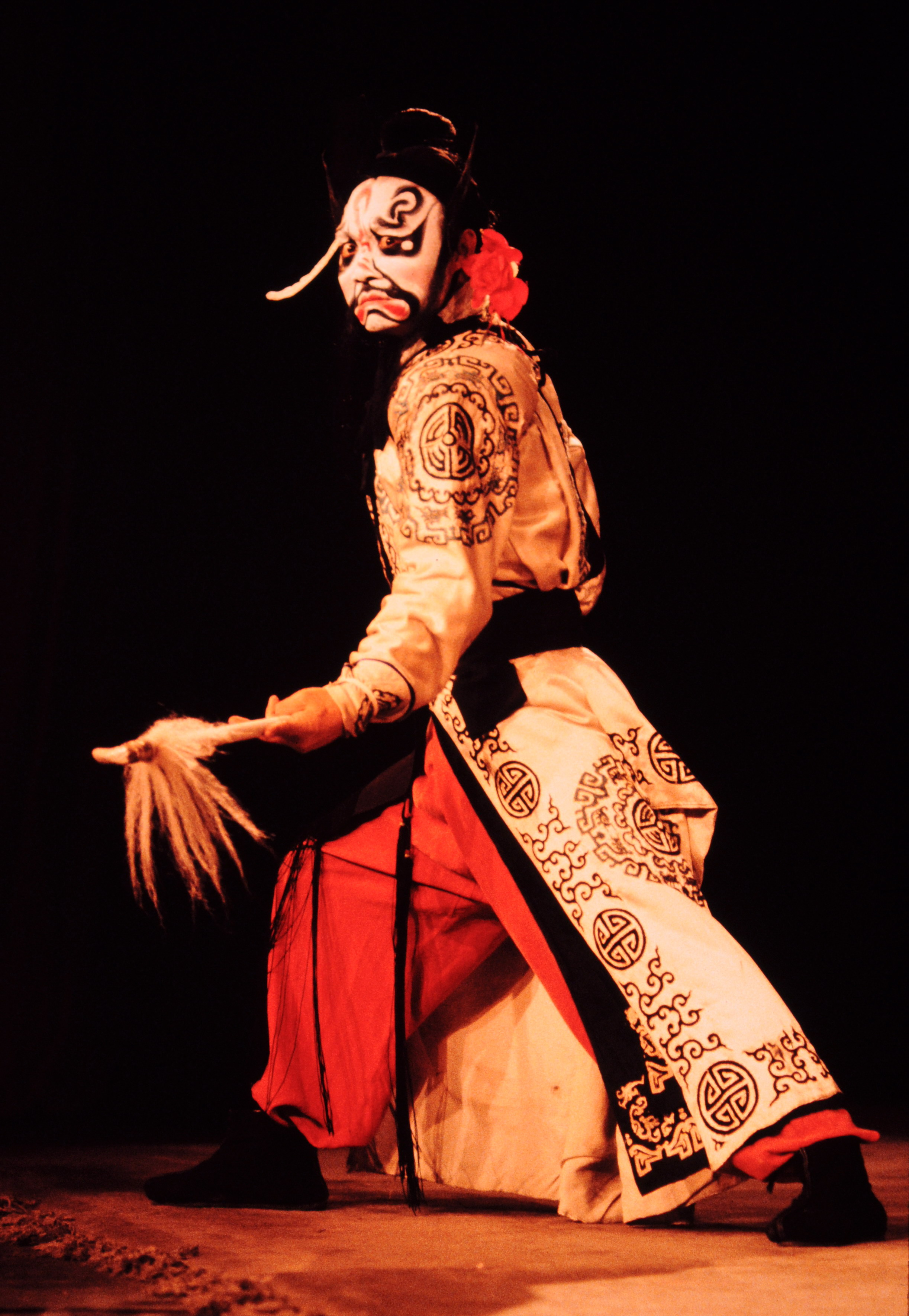 Actor during a Peking opera performance